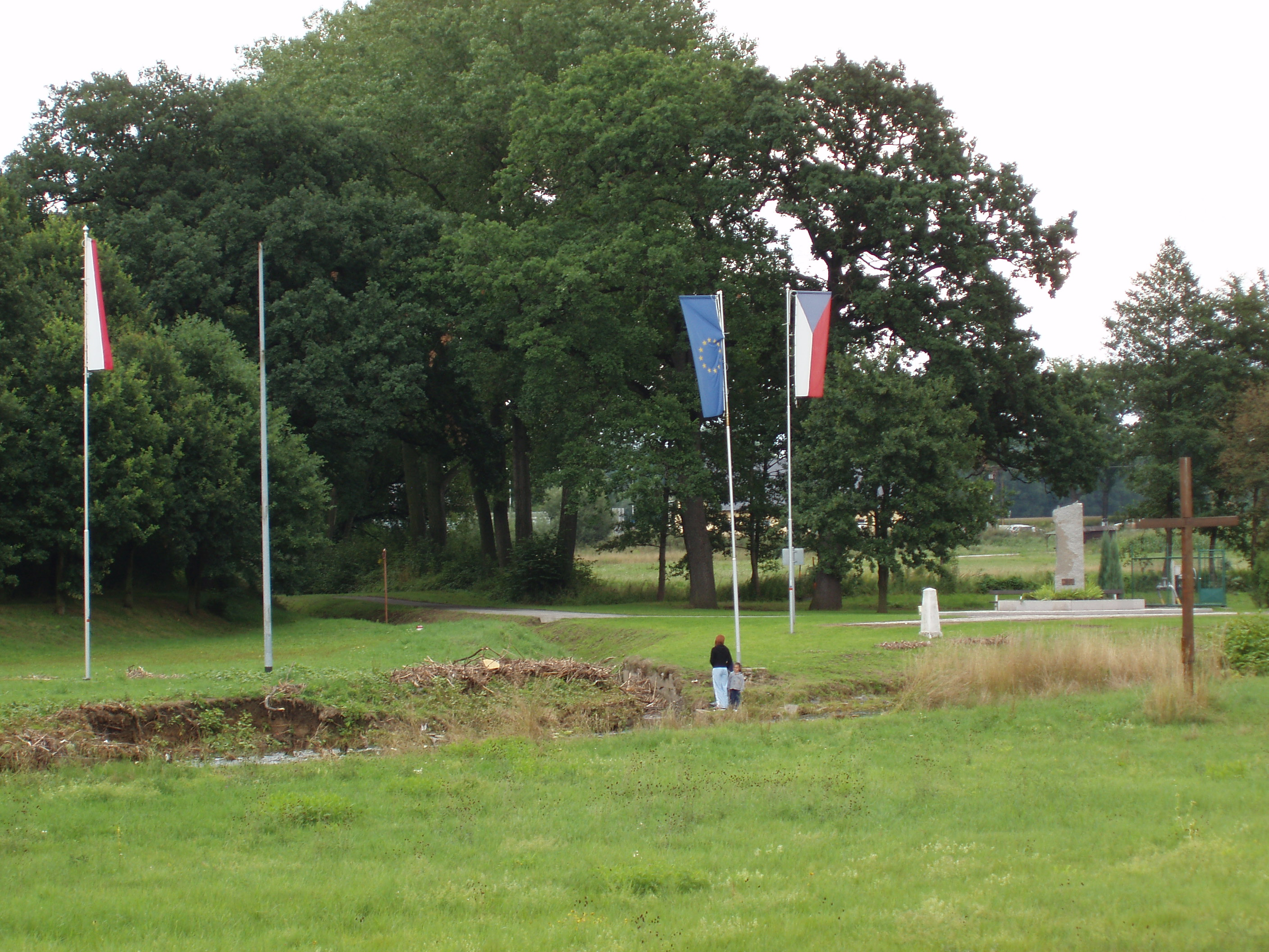 Zittau tripoint of Germany, Czech Republic, and Poland